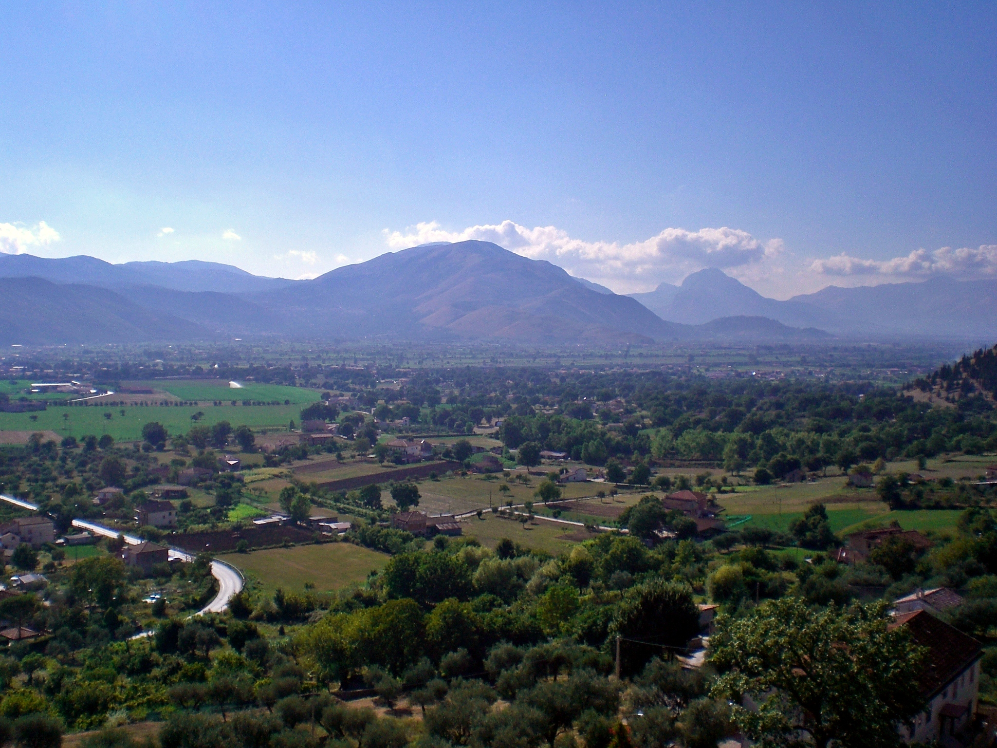 Panorama of Vallo di Diano — in Campania. Part of Cilento and Vallo di Diano National Park.